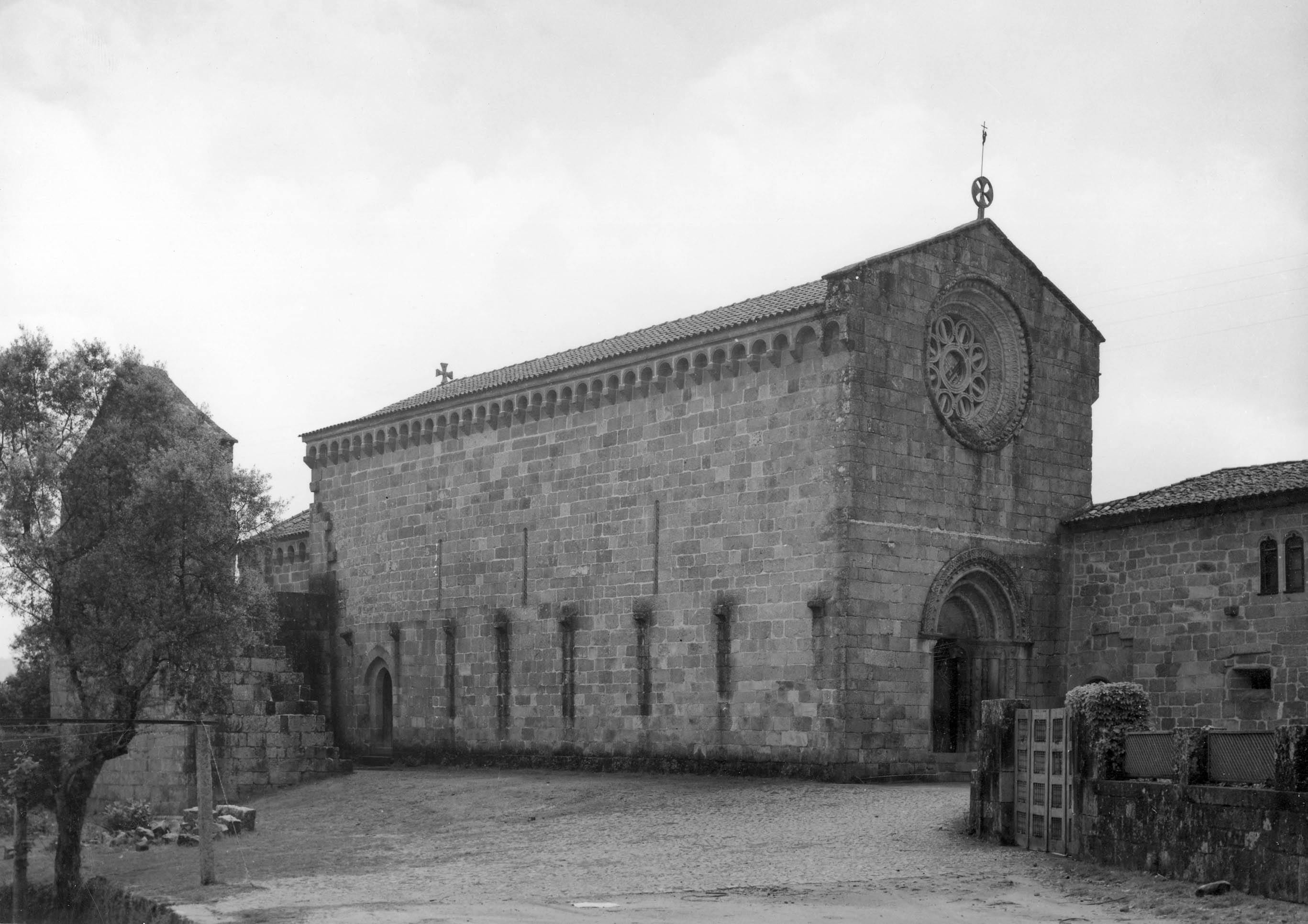 Church of Roriz, Santo Tirso, Portugal